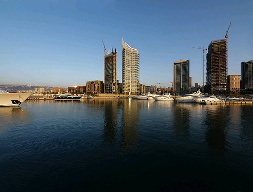 Ras Beirut neighbourhood